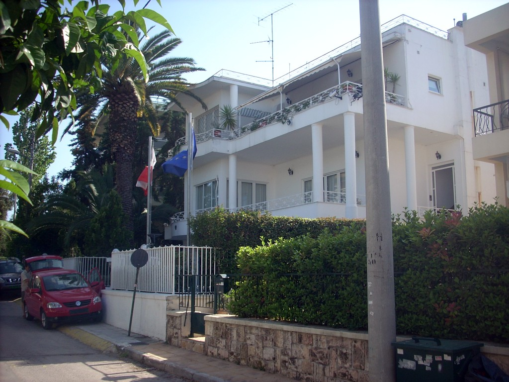 Embassy of the Republic of Poland in Athens